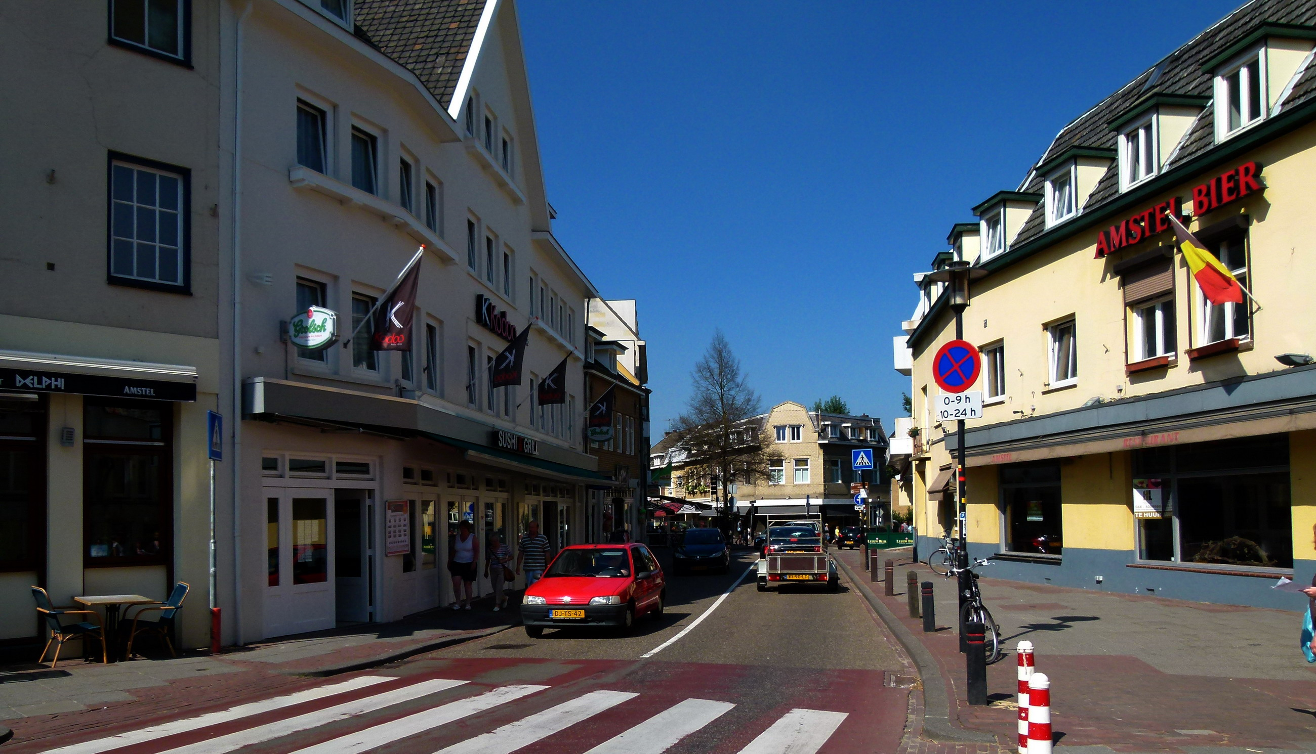 Valkenburg, Limburg, the Netherlands. View of Grendelplein in the center of Valkenburg.